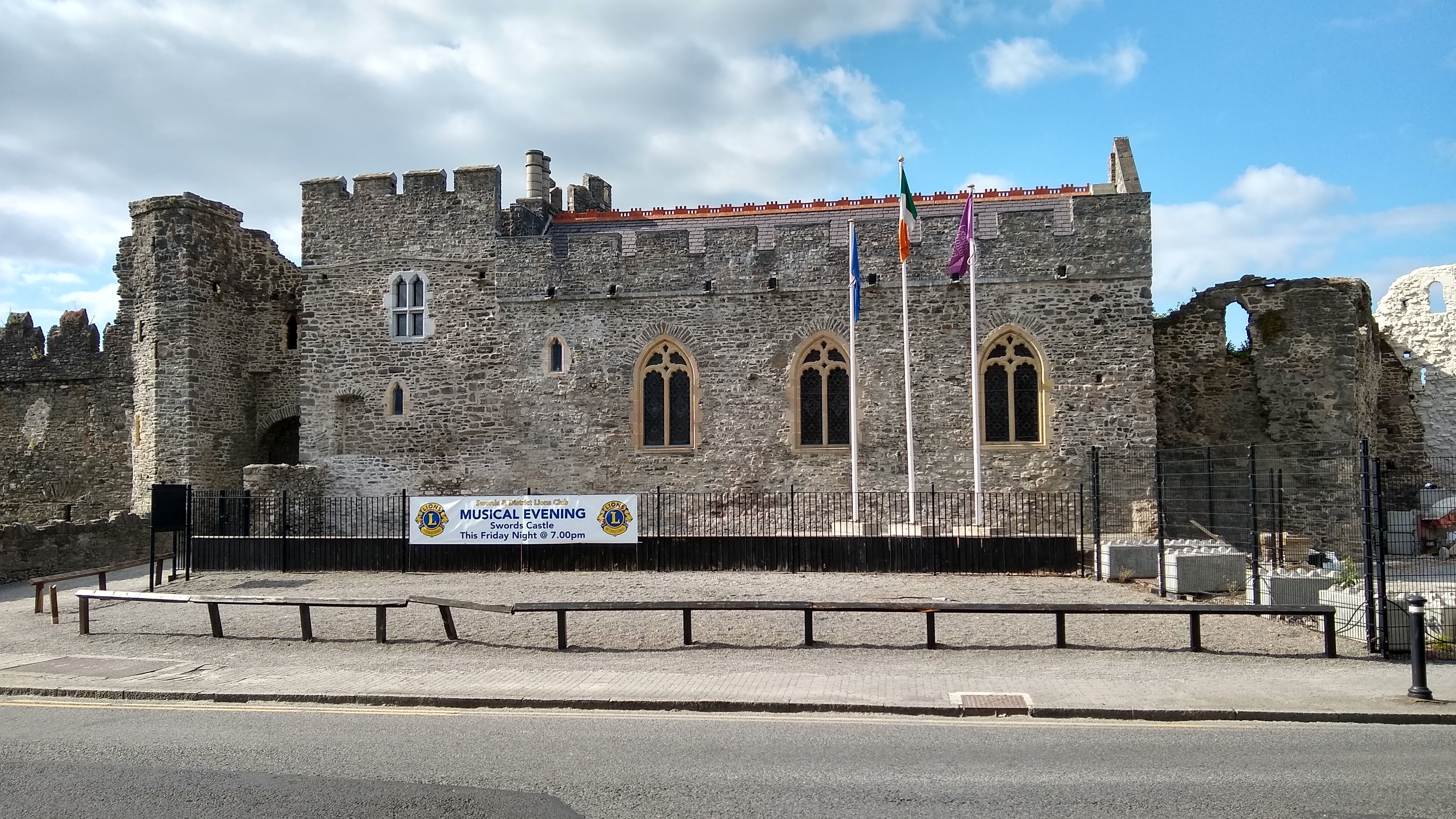 Swords Castle, as viewed from Main Street.